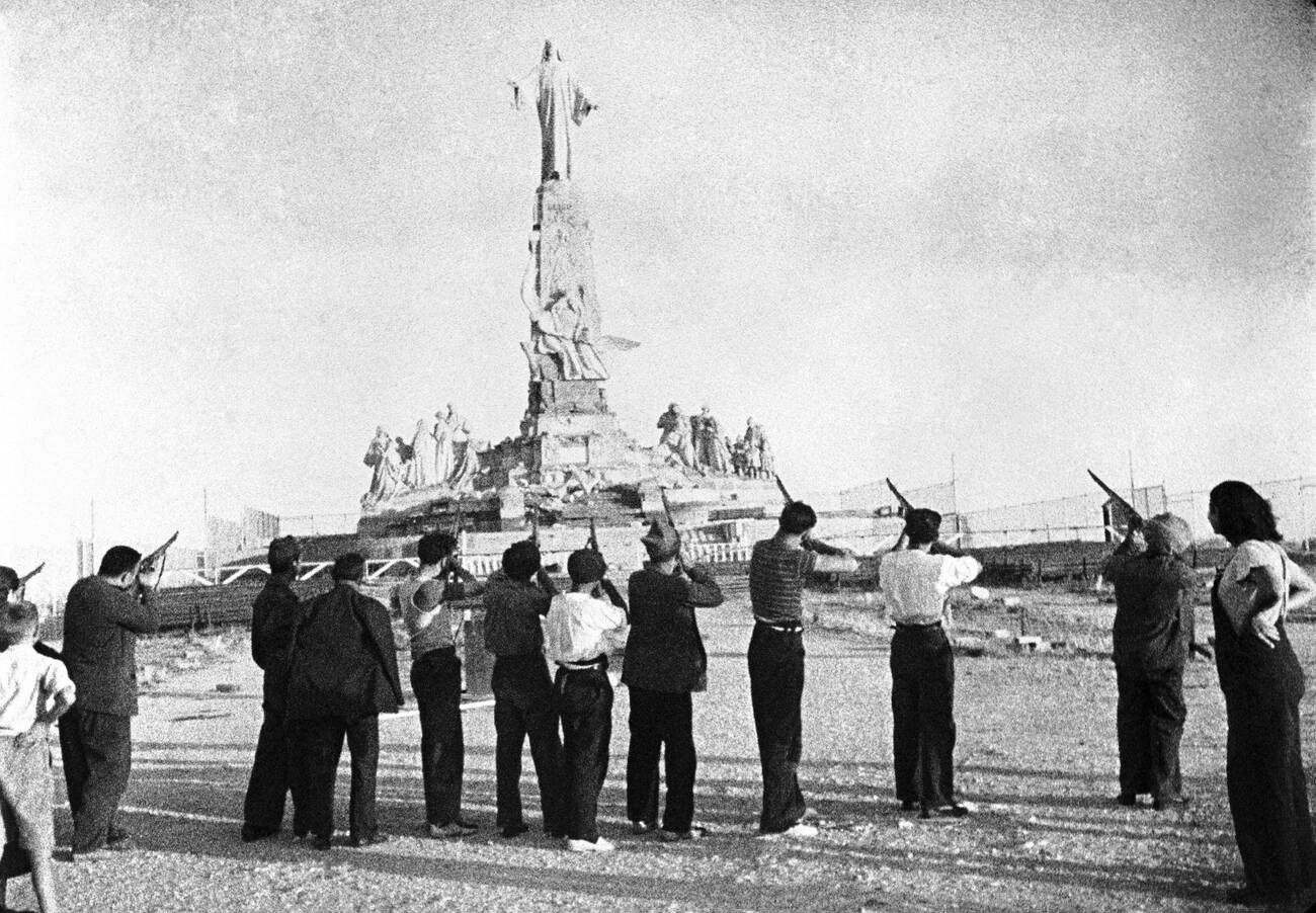 This picture, taken by a Paramount News-reel representative and received by air from Madrid yesterday, illustrates an outrage which has no parallel in the photographs published by "The Daily Mail" of the Spanish Reds' war on religion. It shows a Communist firing squad aiming at the colossal Monument of the Sacred Heart on the Cerro de los Angeles, a hill a few miles south of Madrid which is regarded as the exact centre of Spain. Published by the Daily Mail in August 1936